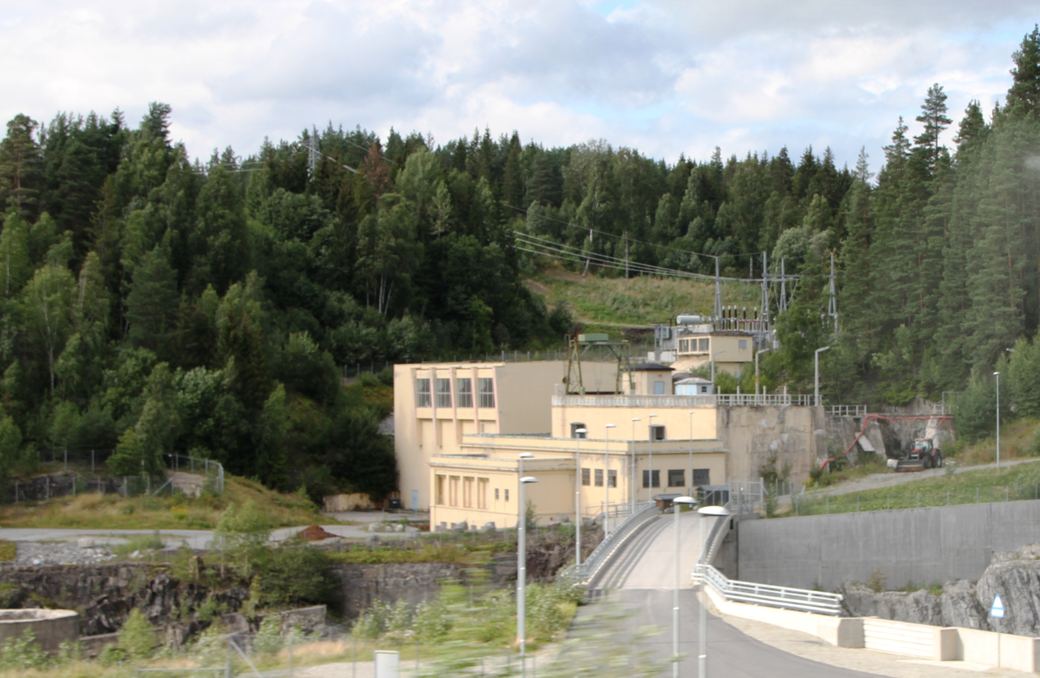 Embretsfoss (Embret Waterfall) dam and Power station in Drammenselva river, Buskerud, Norway